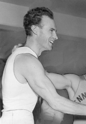 1956 Olympic Gymnast Jack Gunthard with Penn State Exhibition Press Photo